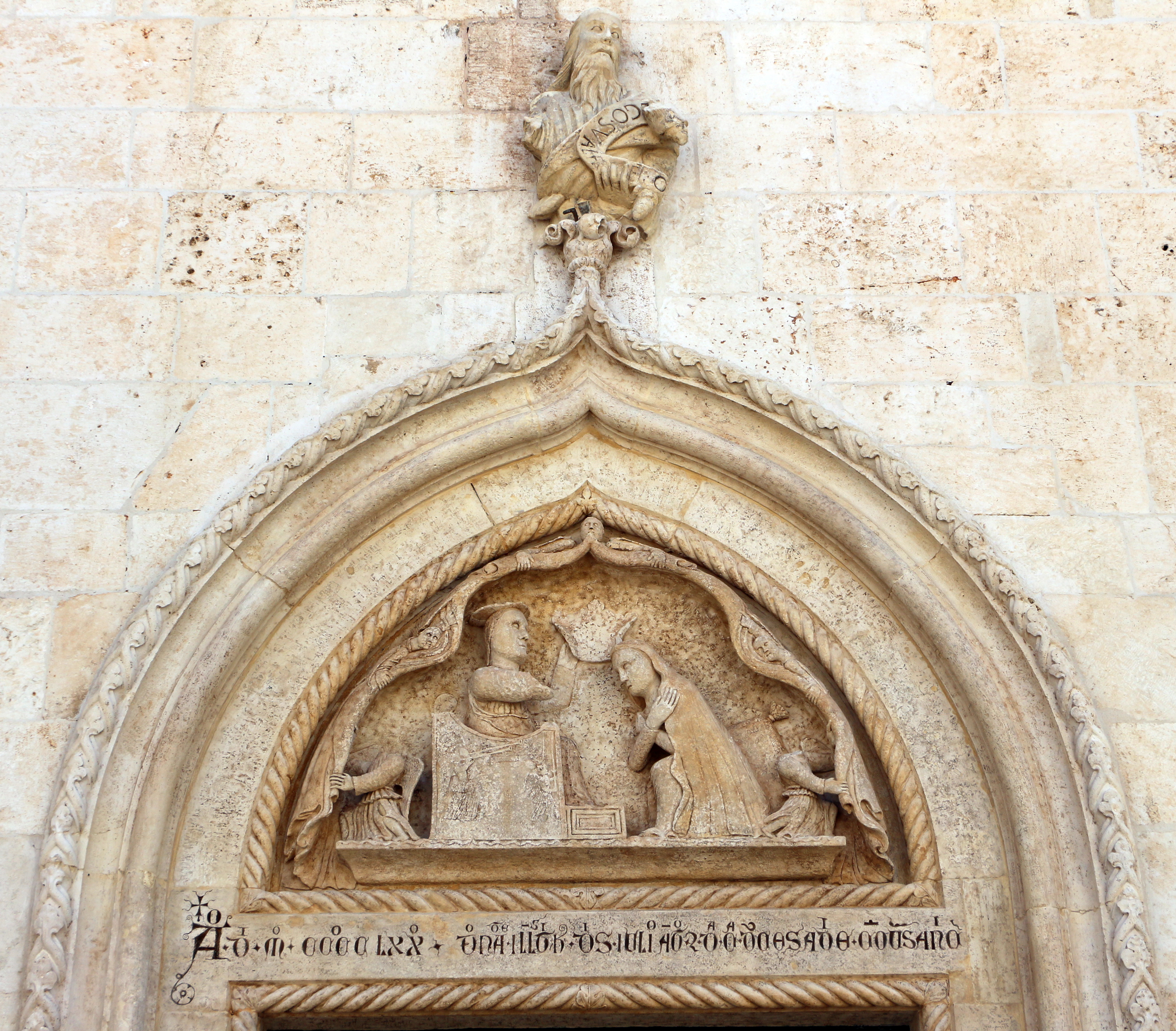 Chiesa Madre (Noci)